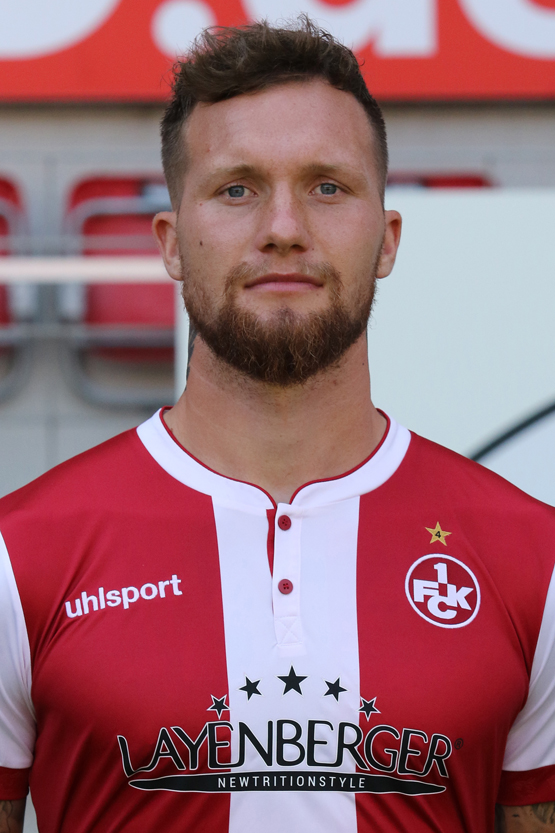 Jan Löhmannsröben (Nr. 6)